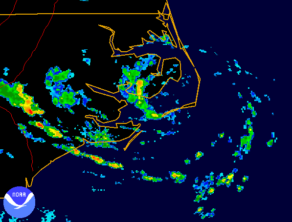 This is a radar image of Tropical Storm Arthur, 1996, from NWS Morehead City, NC NEXRAD radar and was made using JAVA NEXRAD tool.